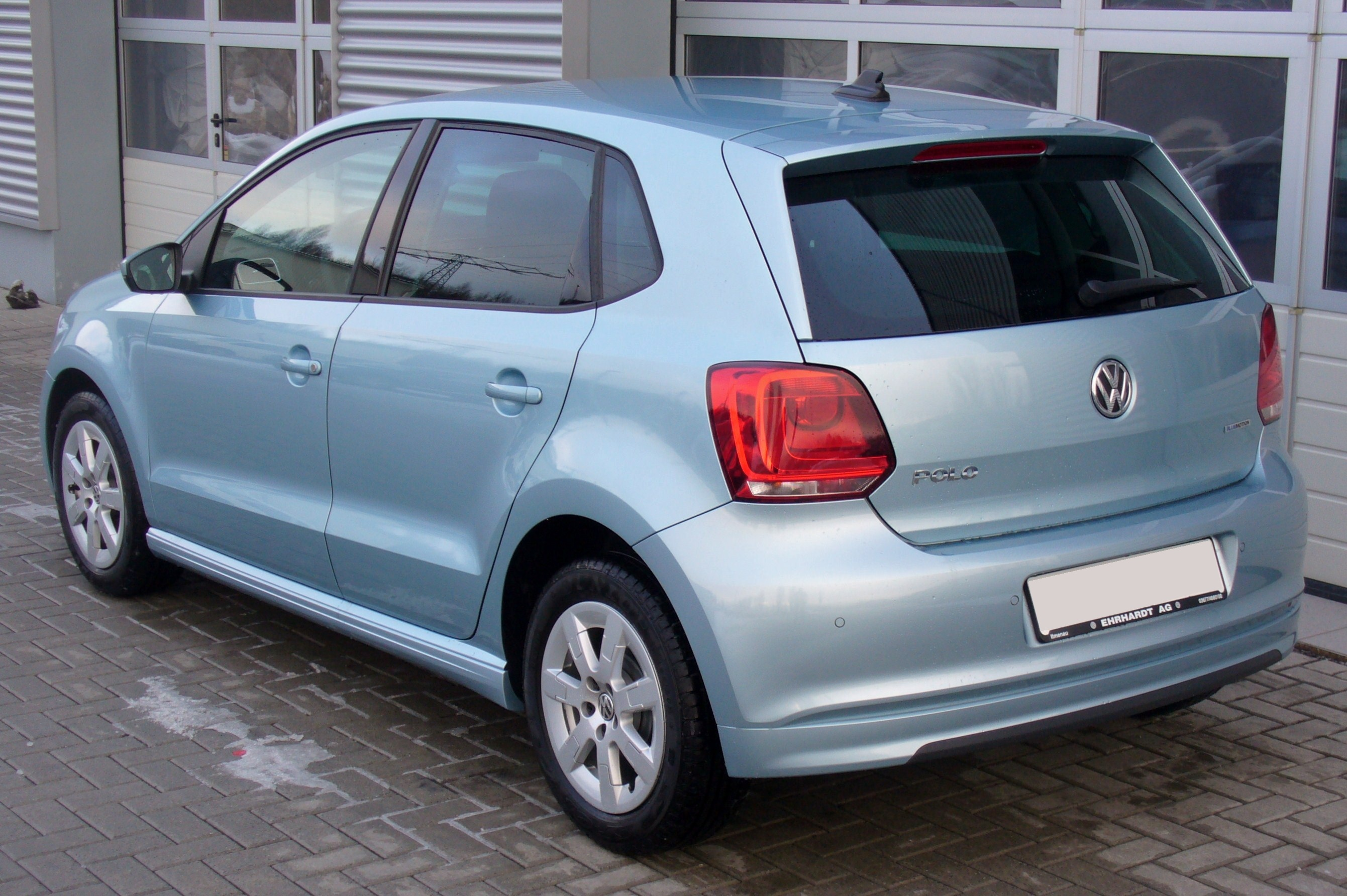 VW Polo V BlueMotion